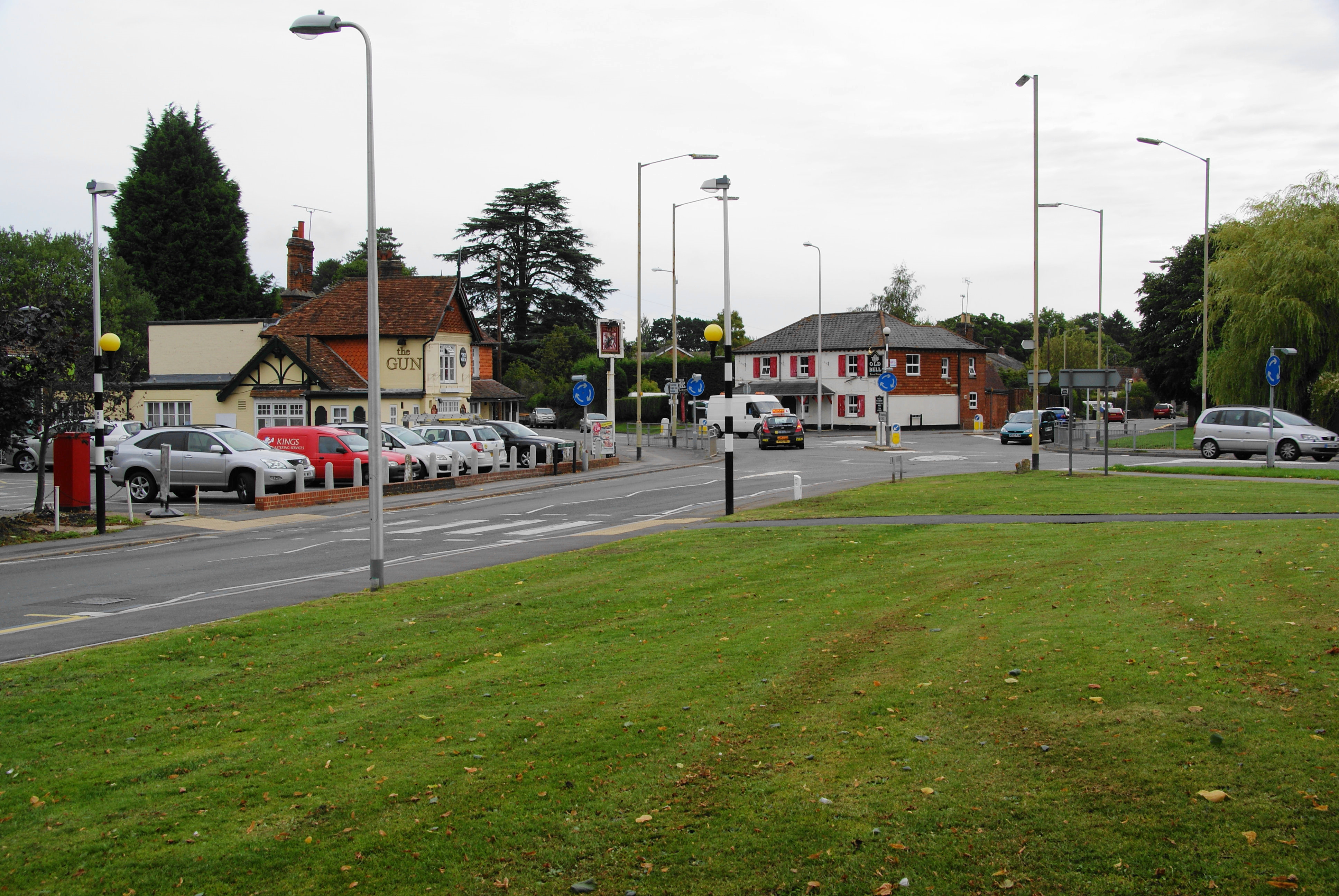 This also shows part of the green fronting the Falkland Memorial, as well as the junction with Andover Road beyond. The parked cars on the left are utilising a row of shops just out of the picture.